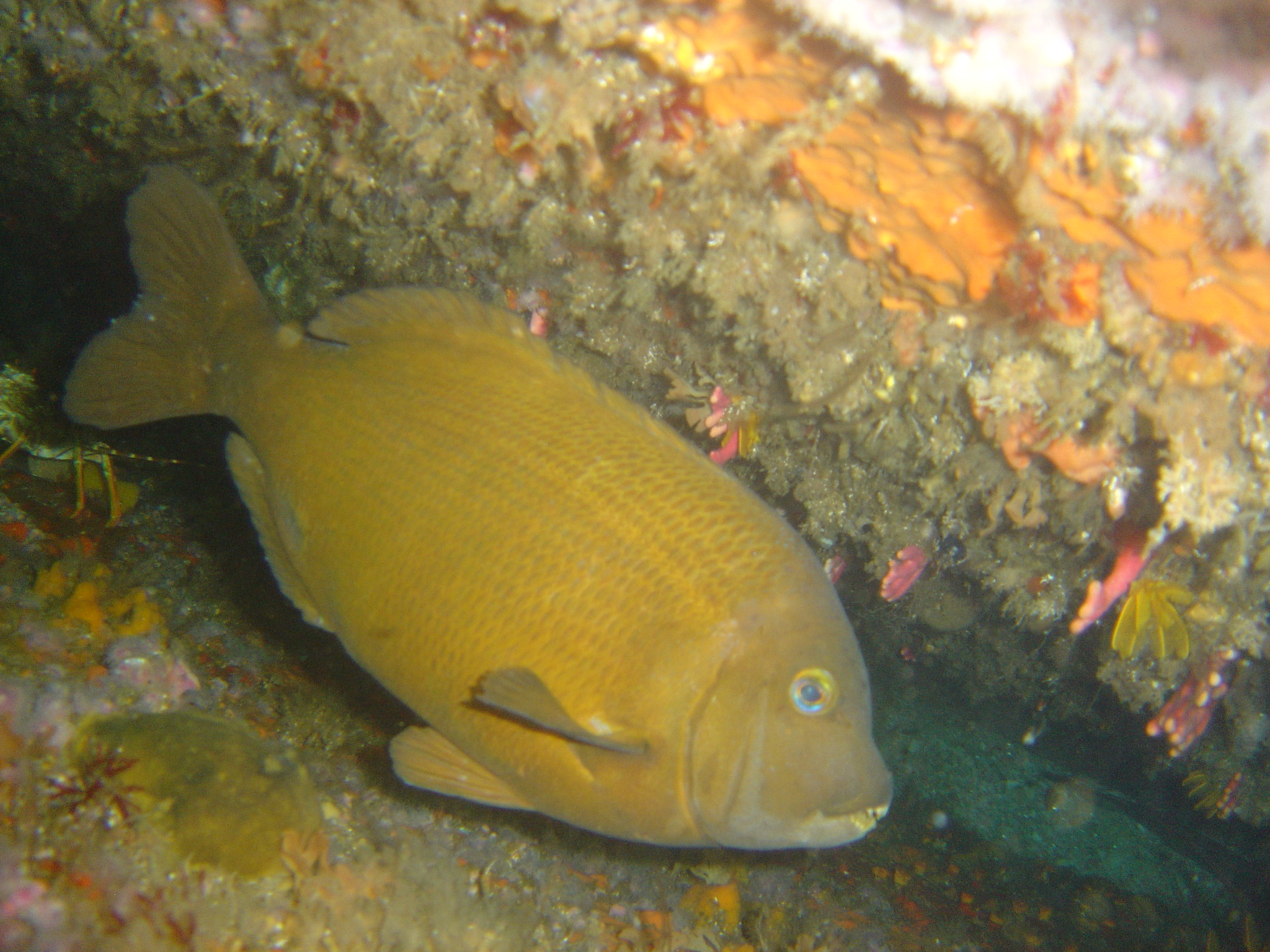 Janbruin at Whittle Rock, Whittle Rock.